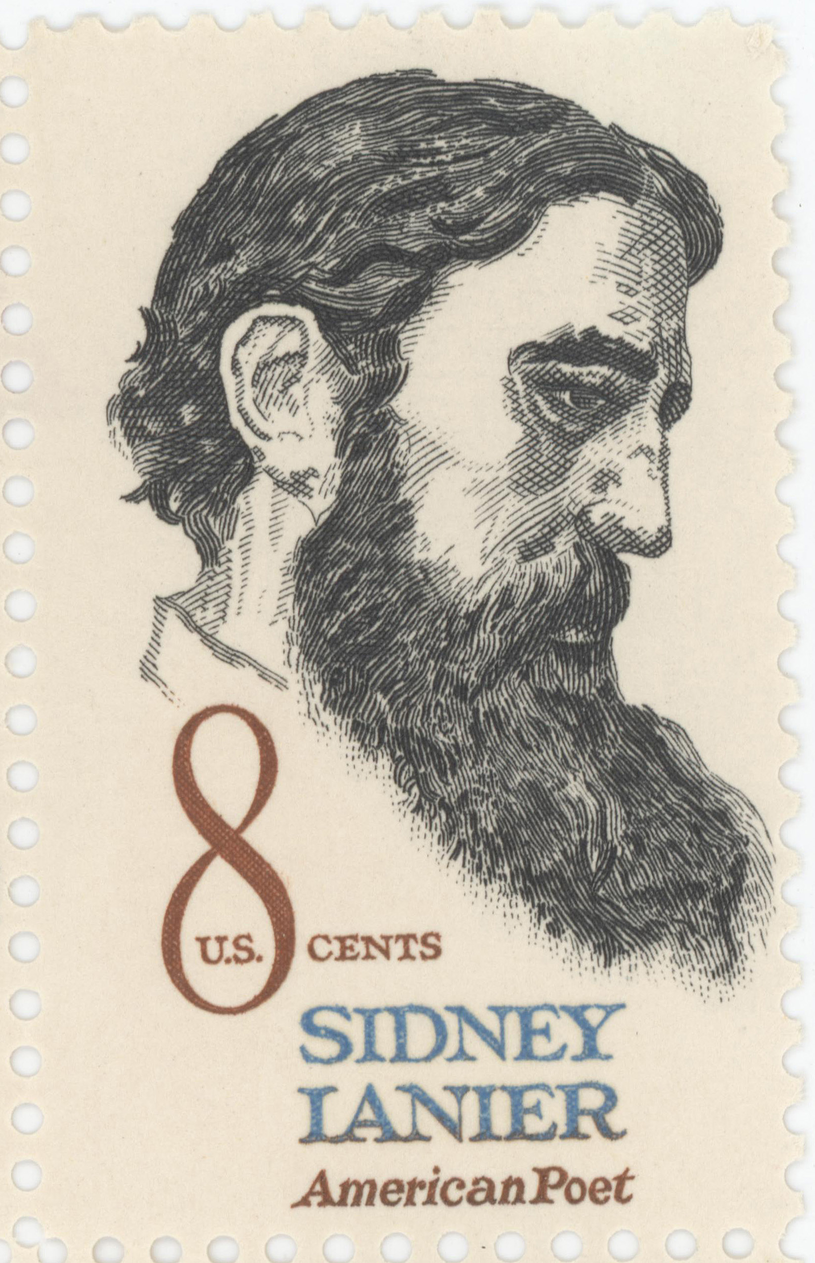 US 8-cent stamp, Sidney Lanier - American Poet